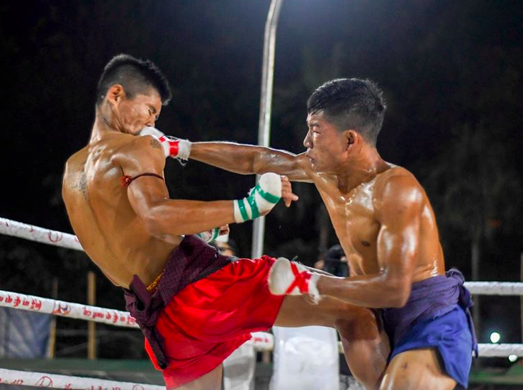 Lethwei fighter lands right hand cross on opponent's face during match in Ye city, Myanmar.